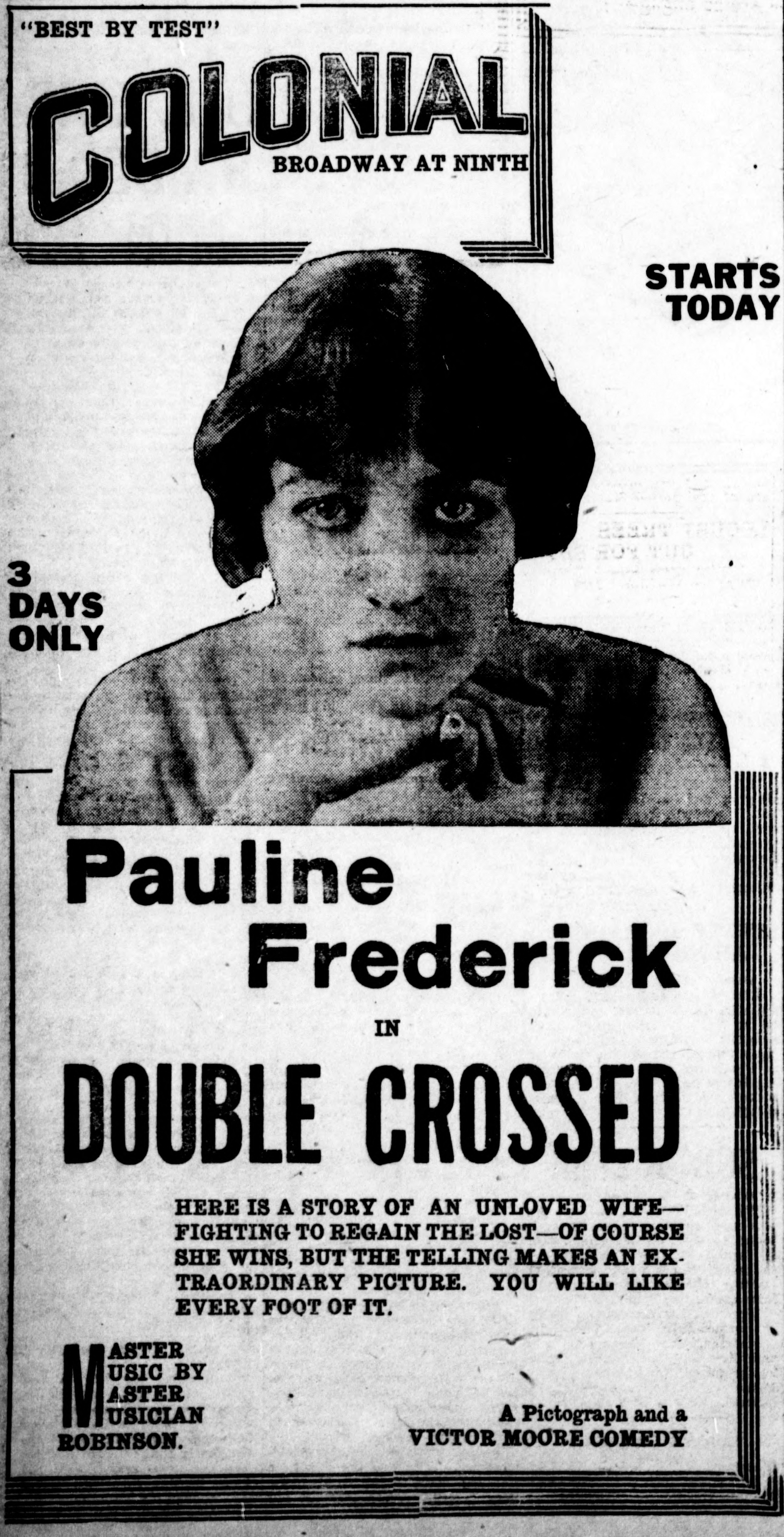 Double Crossed was a 1917 American silent drama film directed by Robert G. Vignola and starred Pauline Frederick and Crauford Kent. This is a newspaper advert for the film.